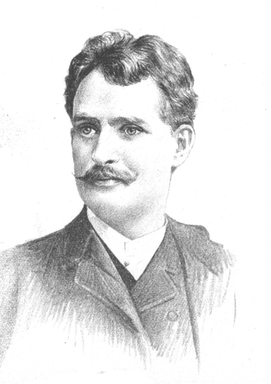 Portrait of Cord Hachmann (1848-1905), German actor and regisseur. Cropped from a gallery of artists engaged at a theater in Hamburg.